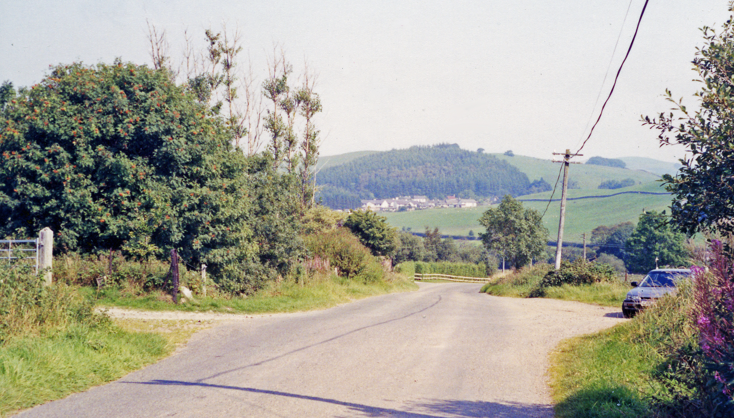 Eastward across Cairn Water valley at site of Dunscore station. View NE: the station had been on the left: ex-G&SW Dumfries - Moniaive Light Railway; all closed to passengers 3/5/43, to goods 4/7/49 - just a gateway is left in 1991.